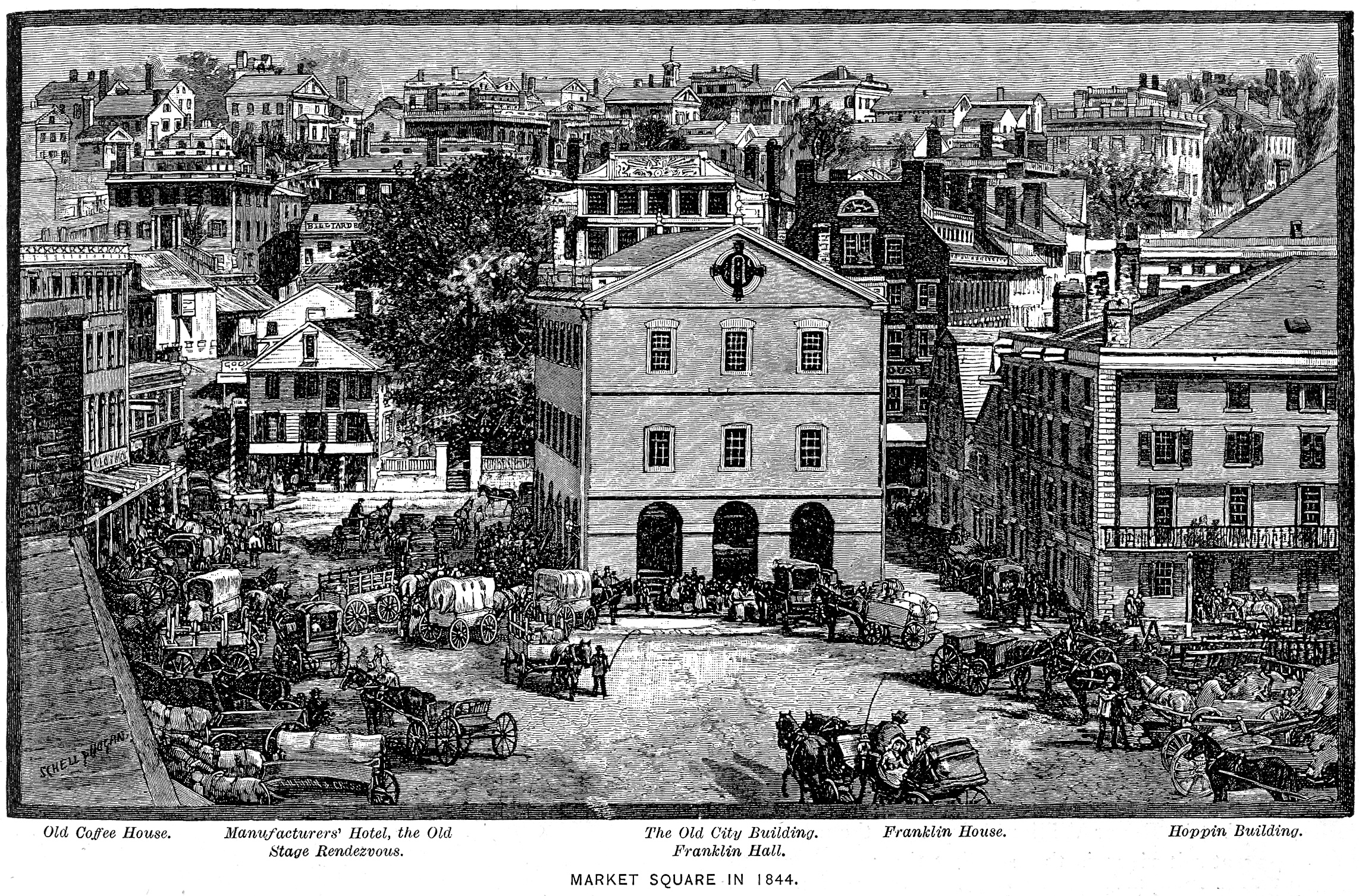 Market Square in 1844; Old Coffee House; Manufacturers' Hotel; the Old City Building (Market House). Franklin Hall. Franklin House. Hoppin Building. Engraving from "The Providence Plantations for 250 Years" (1886), p. 87.